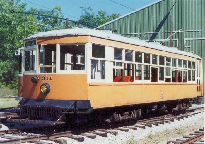 Johnstown Traction 311 at the Rockhill Trolley Museum. Photo taken August 10, 2002 by Frank Hicks.